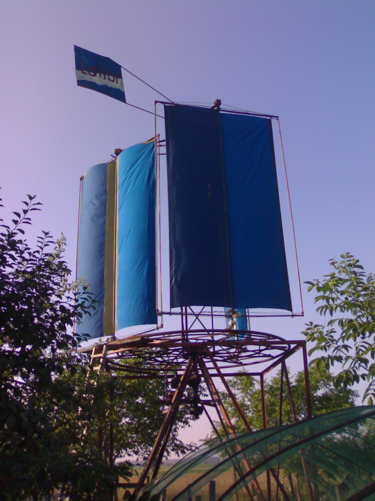 windmill with rotational sails